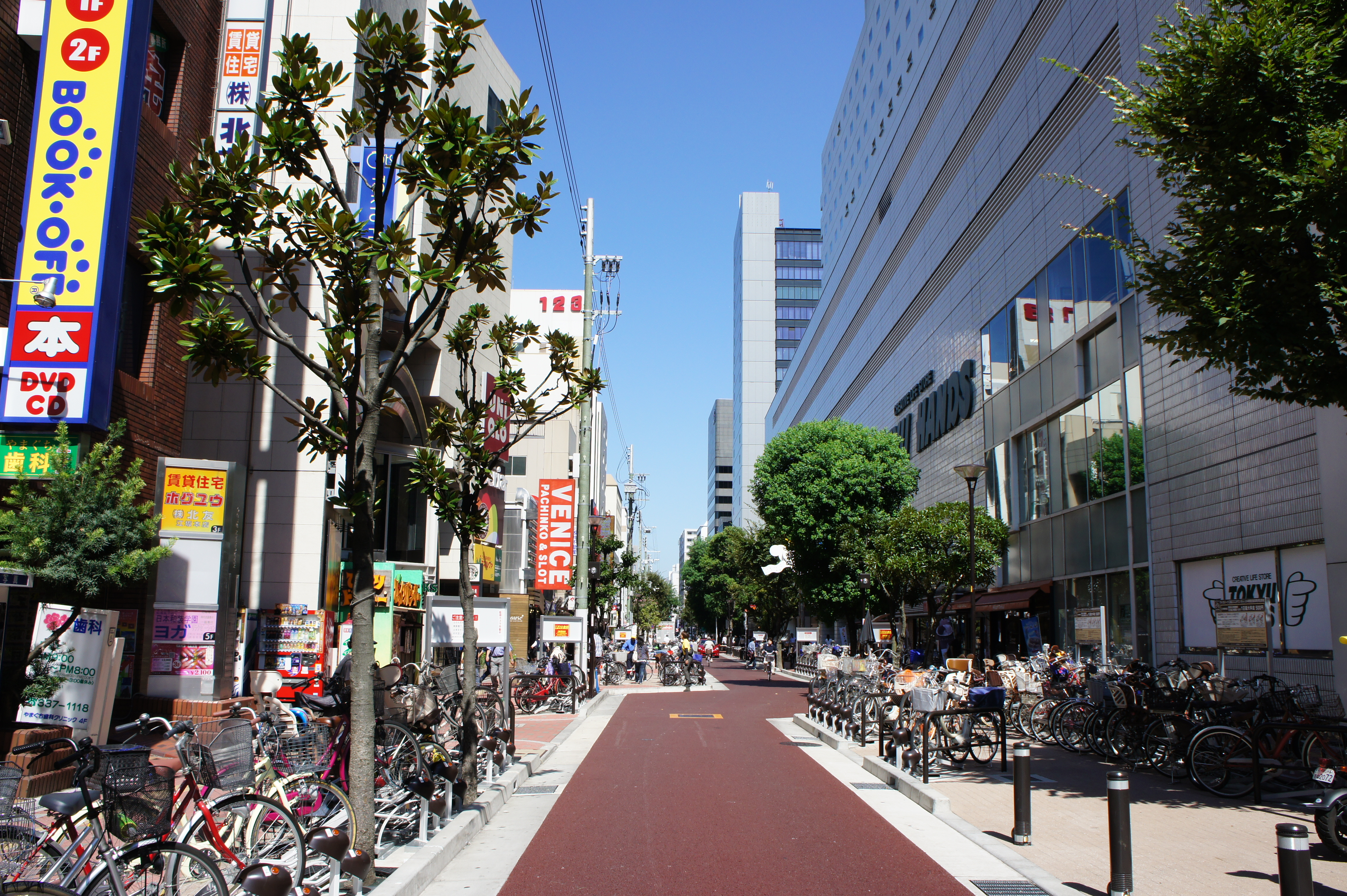 Esaka West Side Street, Esaka Suita-City Osaka Japan.